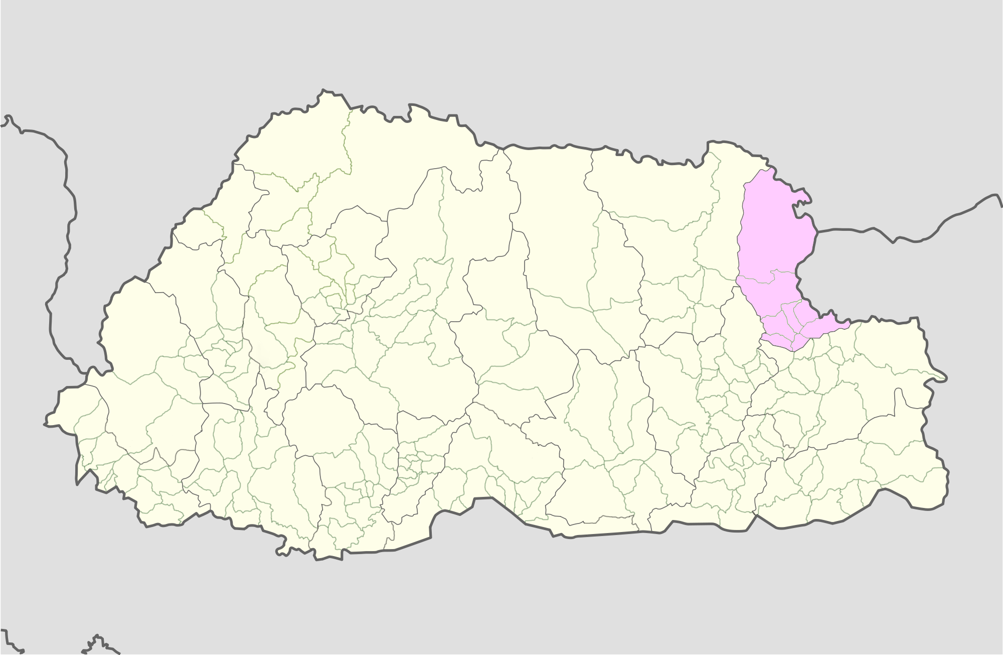 Locator map of Trashiyangtse district — in Bhutan.